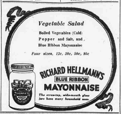 Newspaper ad for Hellmann's Blue Ribbon Mayo. Published in 1922.